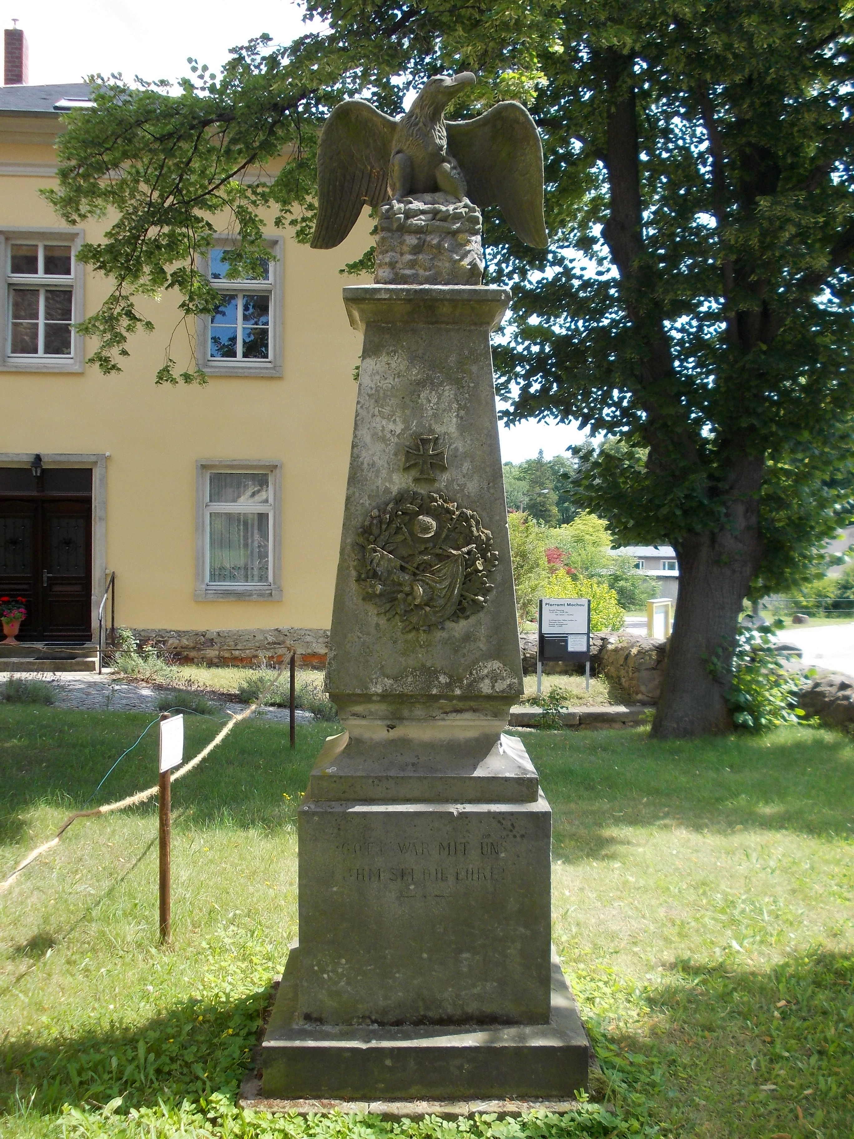 War memorial in Mochau (Mittelsachsen district, Saxony)